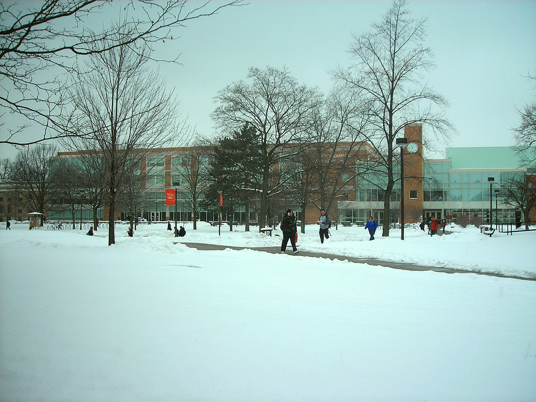 The Bowen-Thompson Student Union on the BGSU campus during a snowy January day.